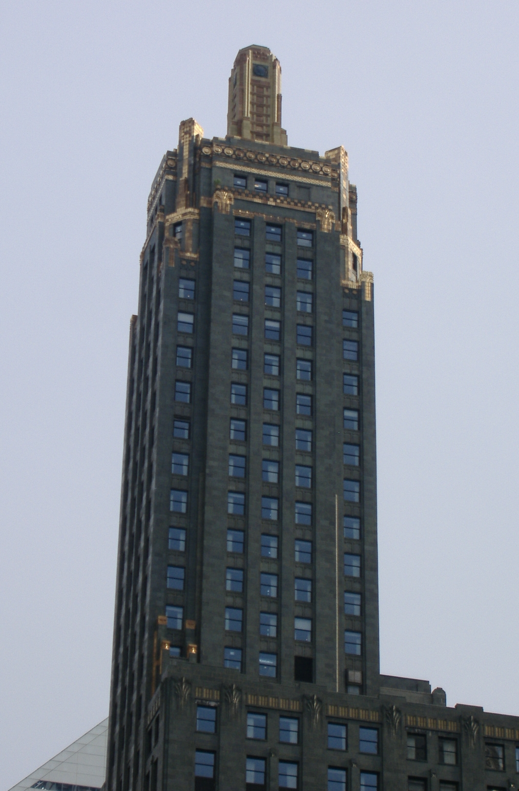 Photo of the Carbide & Carbon Building, Chicago, Ill.